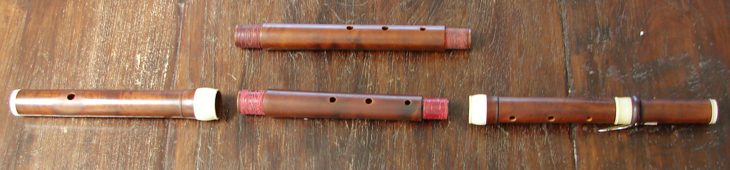 Traverso (baroque flute) by Boaz Berney, after an original by Thomas Lot, Paris ca. 1740, with an extra middle joint, used to lower the instrument by half a tone (from A=415Hz to A=392Hz).